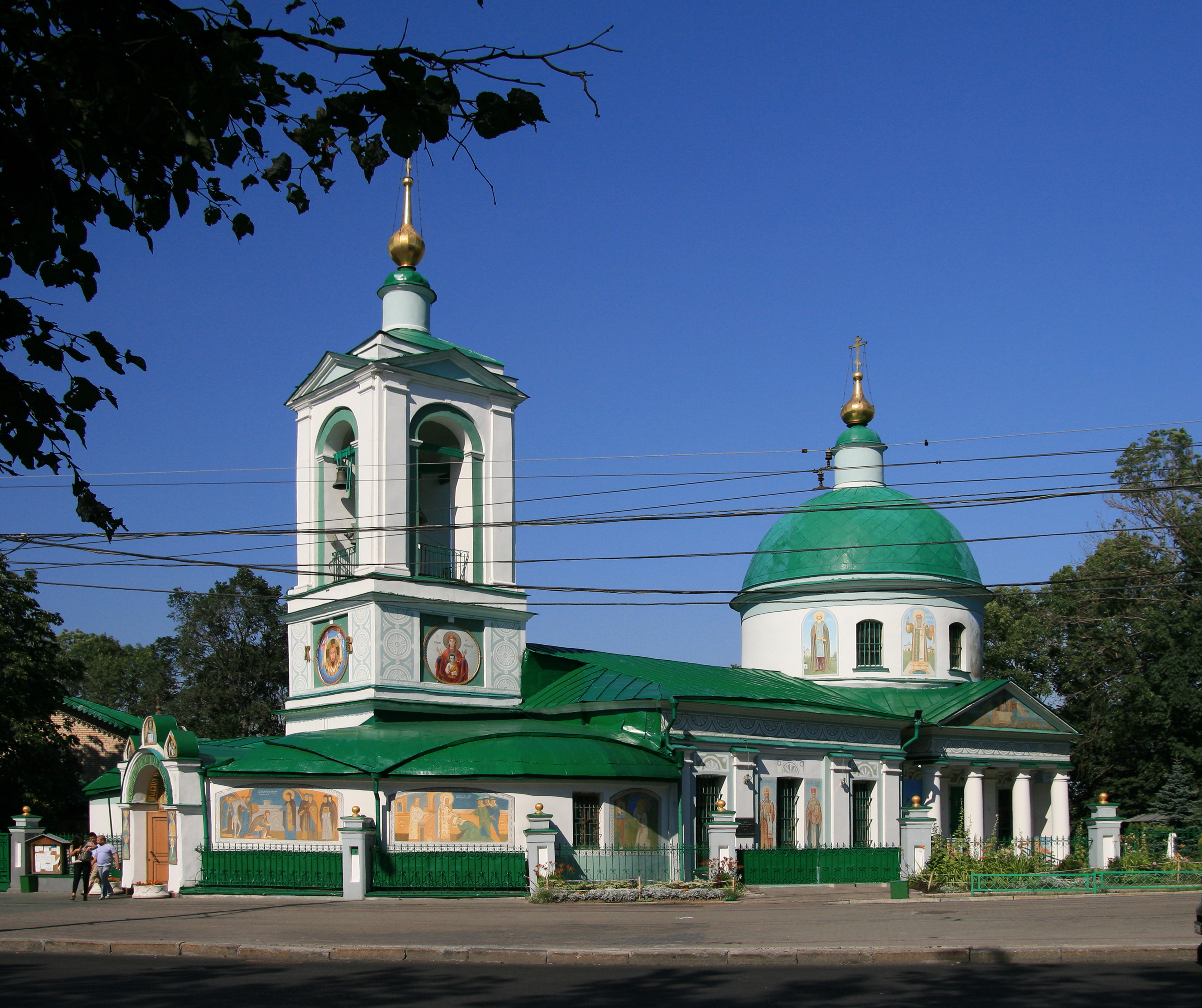 Trinity Church on Sparrow Hills, 1811, Moscow